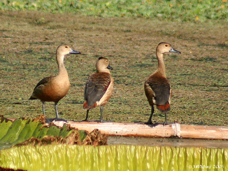 Lesser-whistling Duck (Dendrocygna javanica) in Kolkata, West Bengal, India.